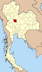 Map of Thailand highlighting Phichit province